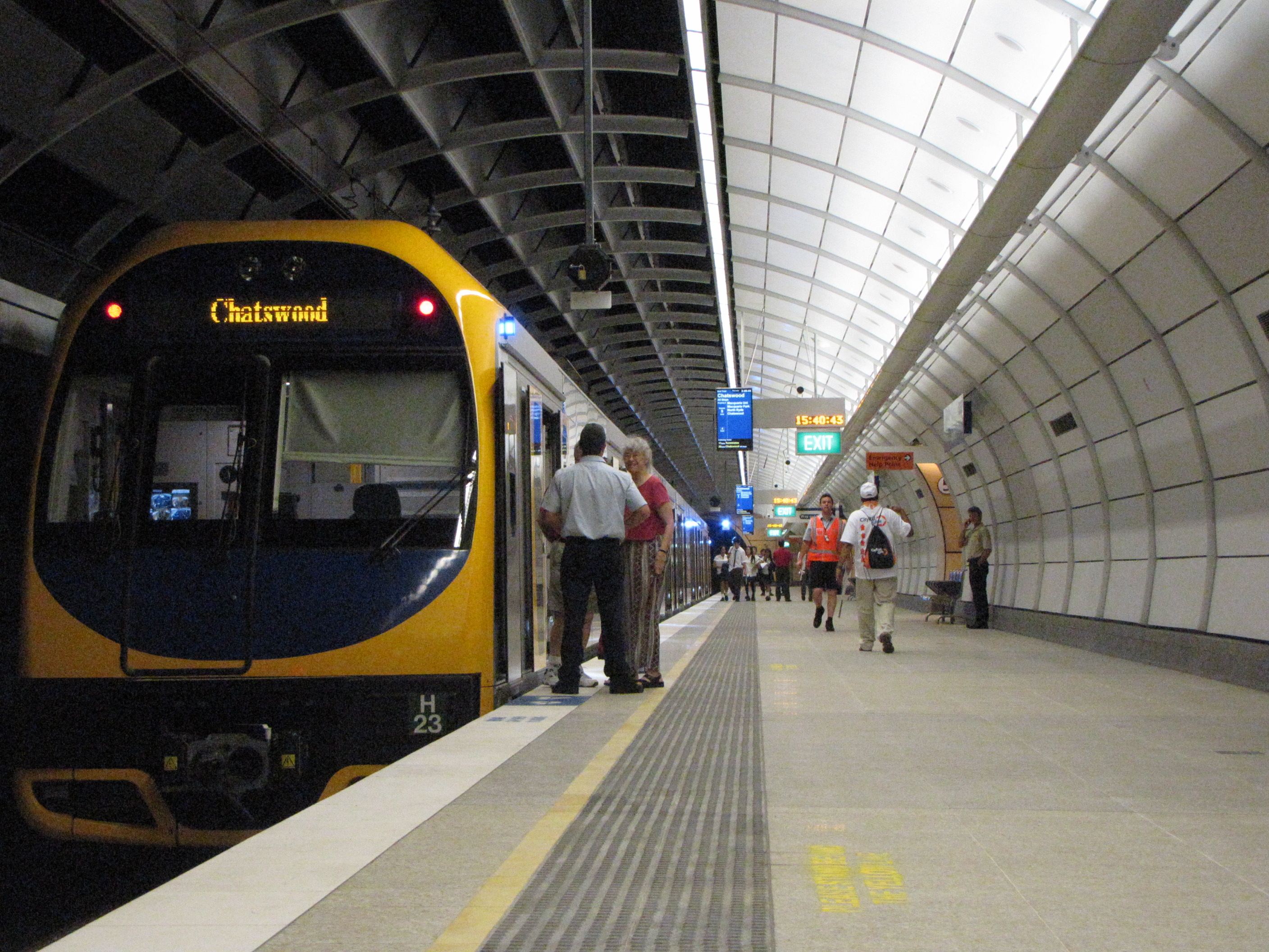 OSCAR set H23 waits to depart on a shuttle service between Epping and Chatswood. Taken on the opening day of the Epping - Chatswood Rail Link.